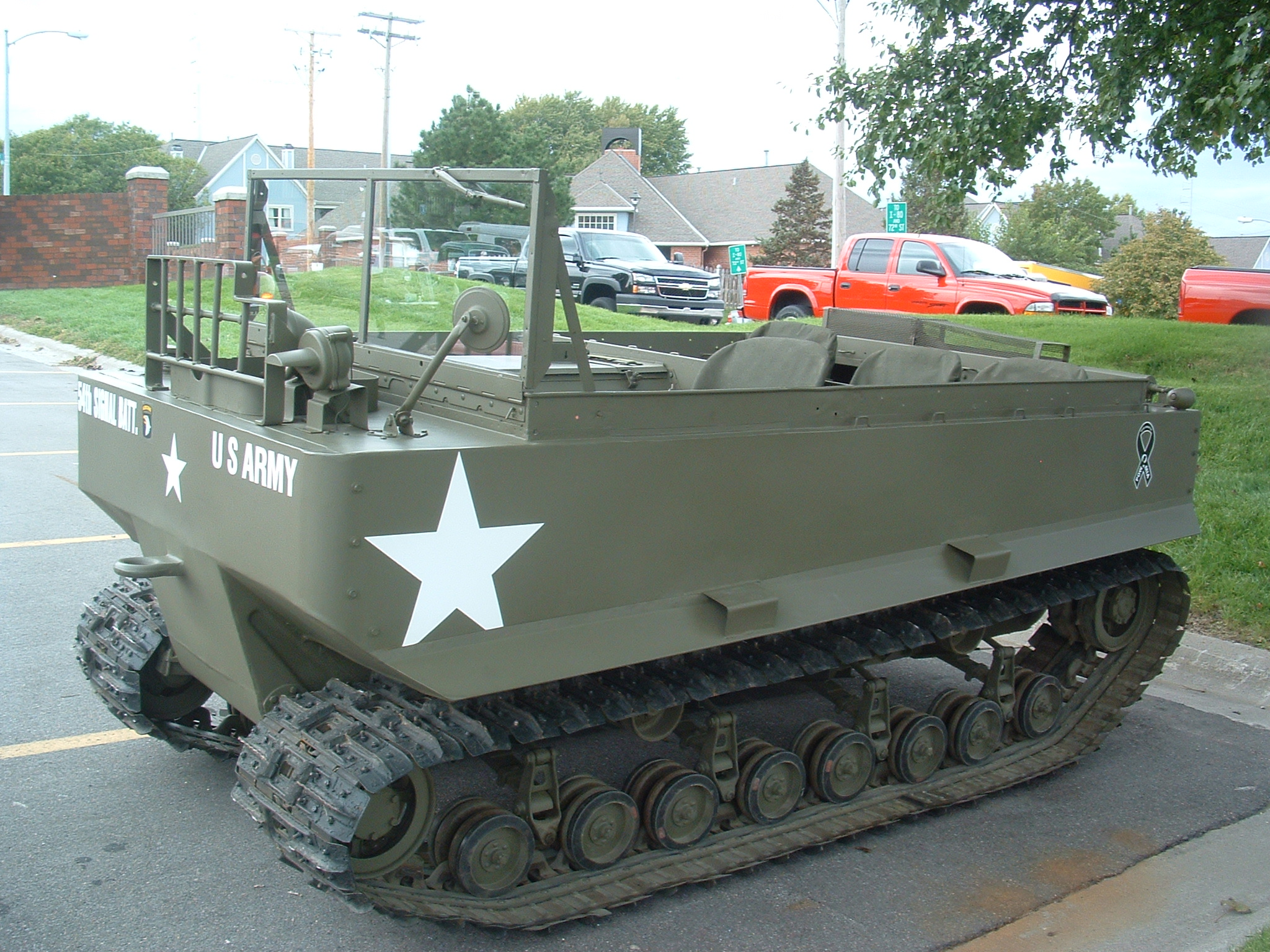 Took at a Studebaker convention in Omaha,NE